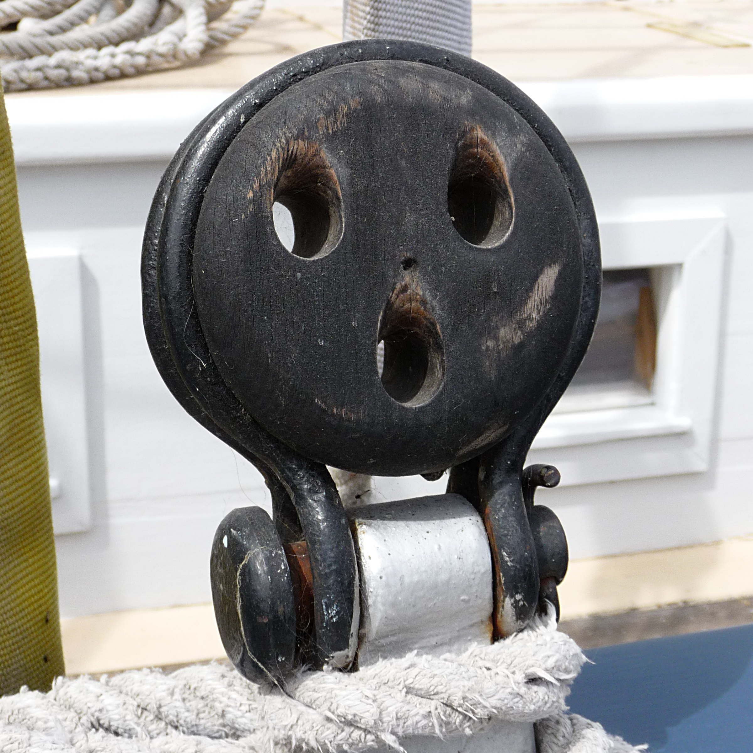 A deadeye shown without a lanyard.